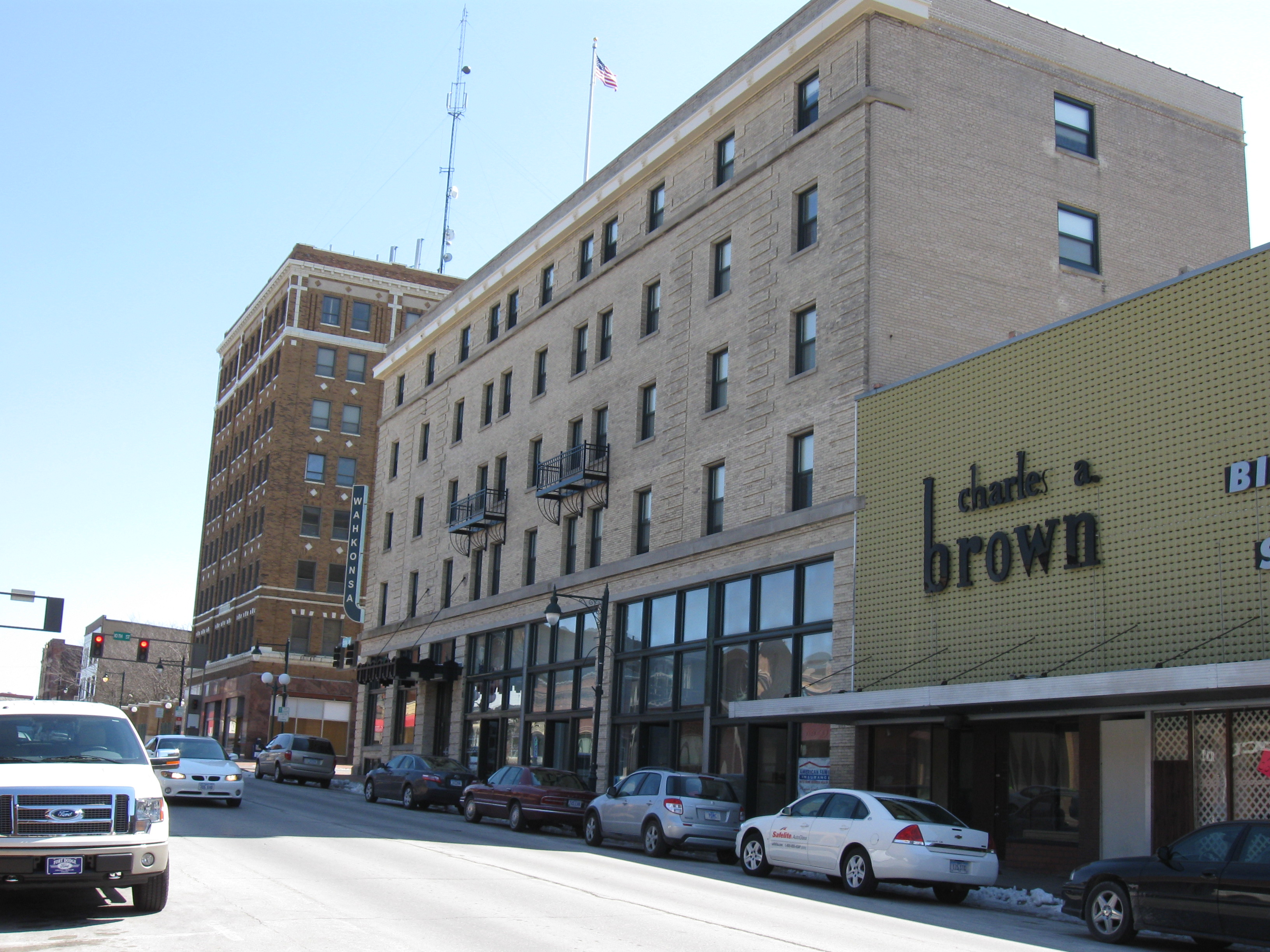 Wahkonsa Hotel, Fort Dodge, Webster County, Iowa